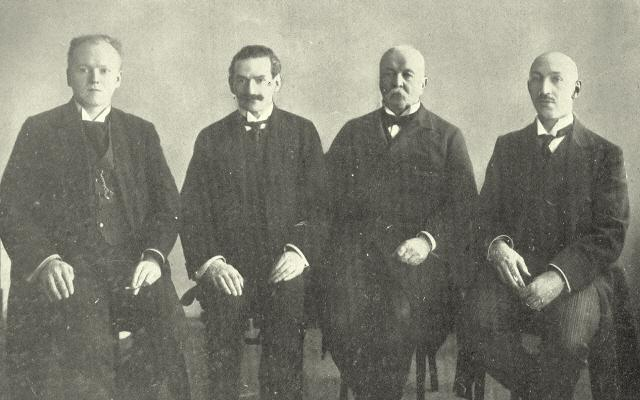 The organizers of chess tournament St Petersburg, 1914. From left to right: P.P. Saburov, Y.O. Sosnitsky, P.A. Saburov and B.E. Maliutin